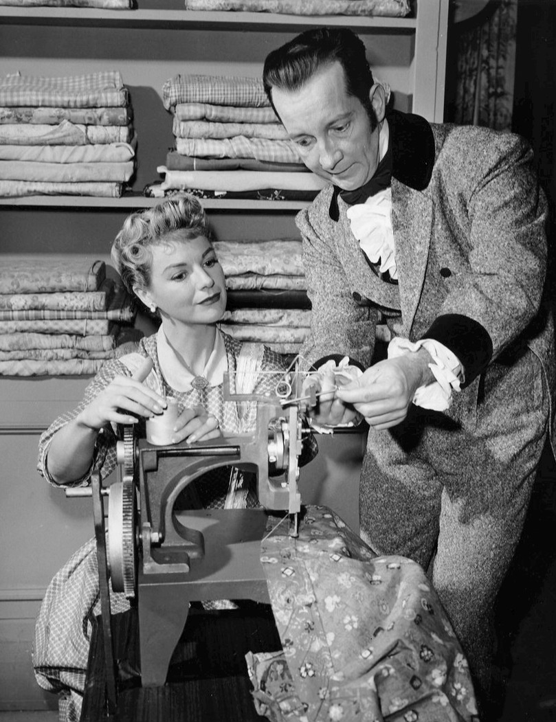 Photo of Nan Leslie and Robert Cornthwaite in the television series The Californians. The item has no copyright markings on it as can be seen in the links above.